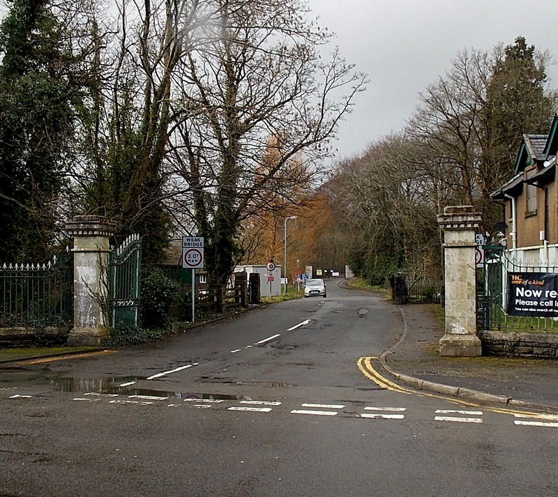 Entrance road to the site of the former Aberdare Hospital